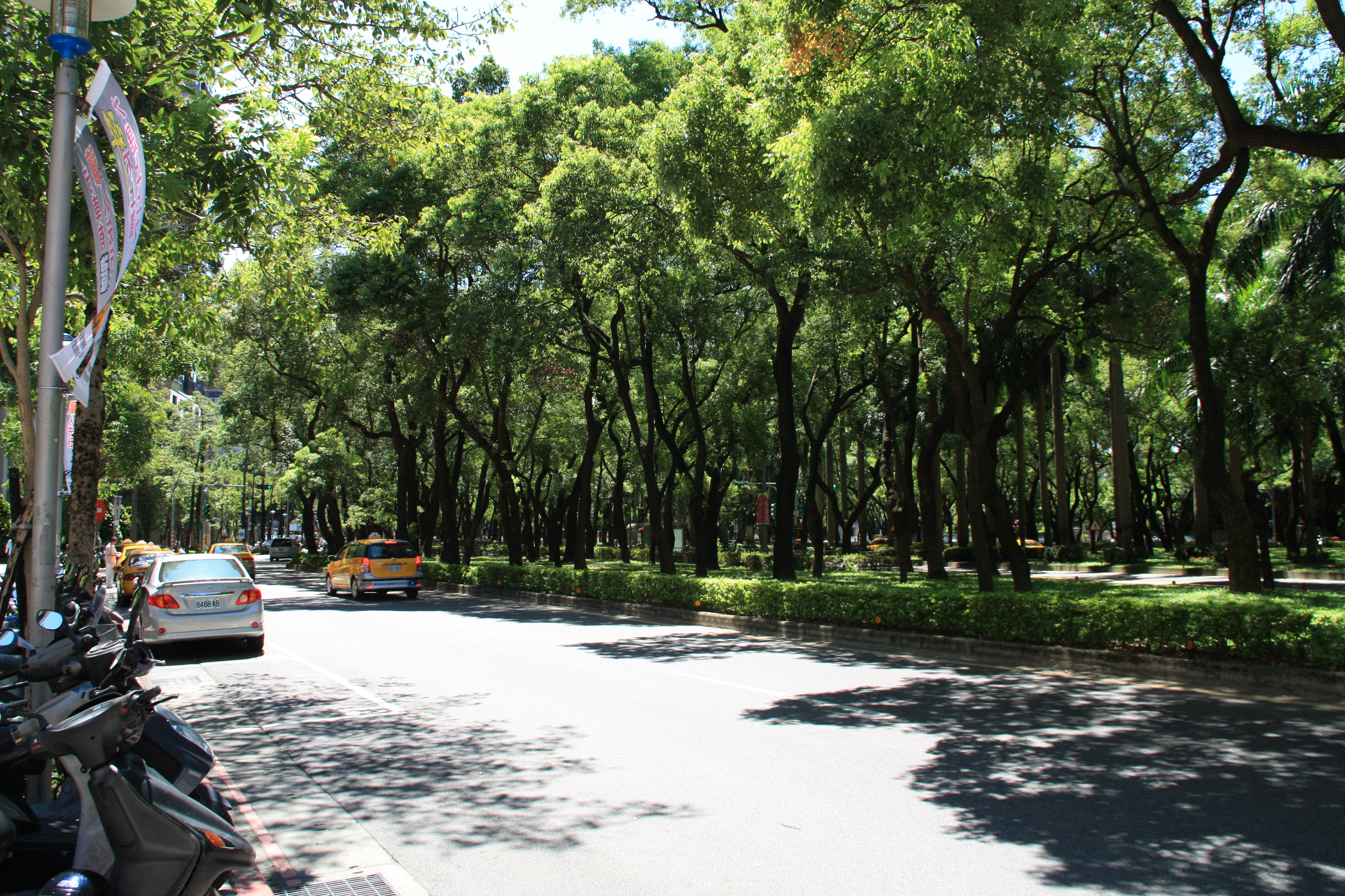 TáiběiDa-an DistrictRénÀi RdPark in the middle of the road